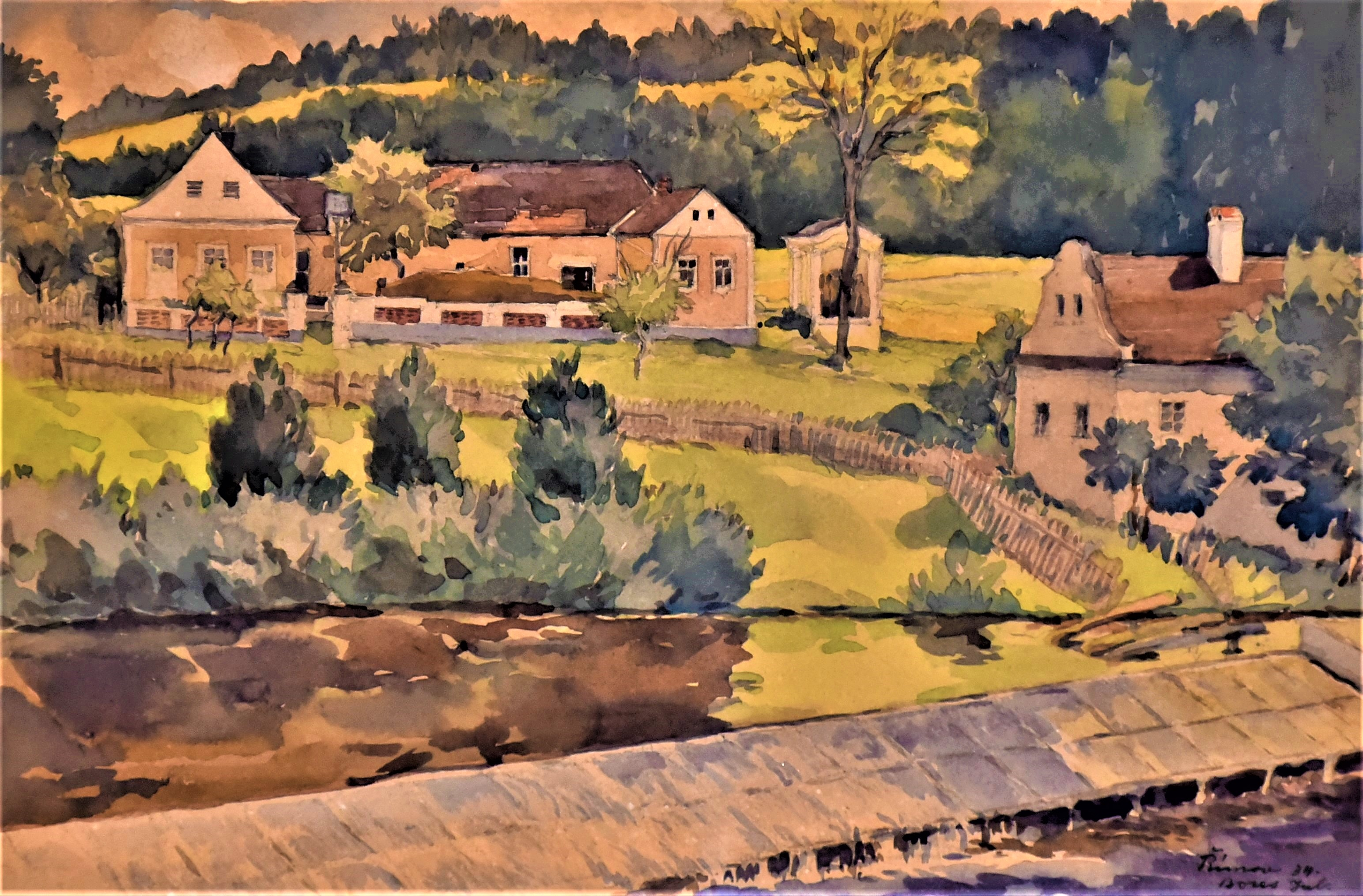 Římov (1934), by Julius Bous (1878-1944)